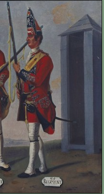 45th Regiment Of Foot By David Morier, 1751